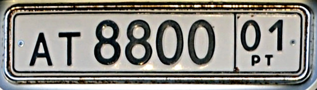 Vehicle registration plate of Tajikistan from 1996 (retouched)